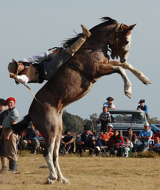 Jineteda gaucha. Argentina.